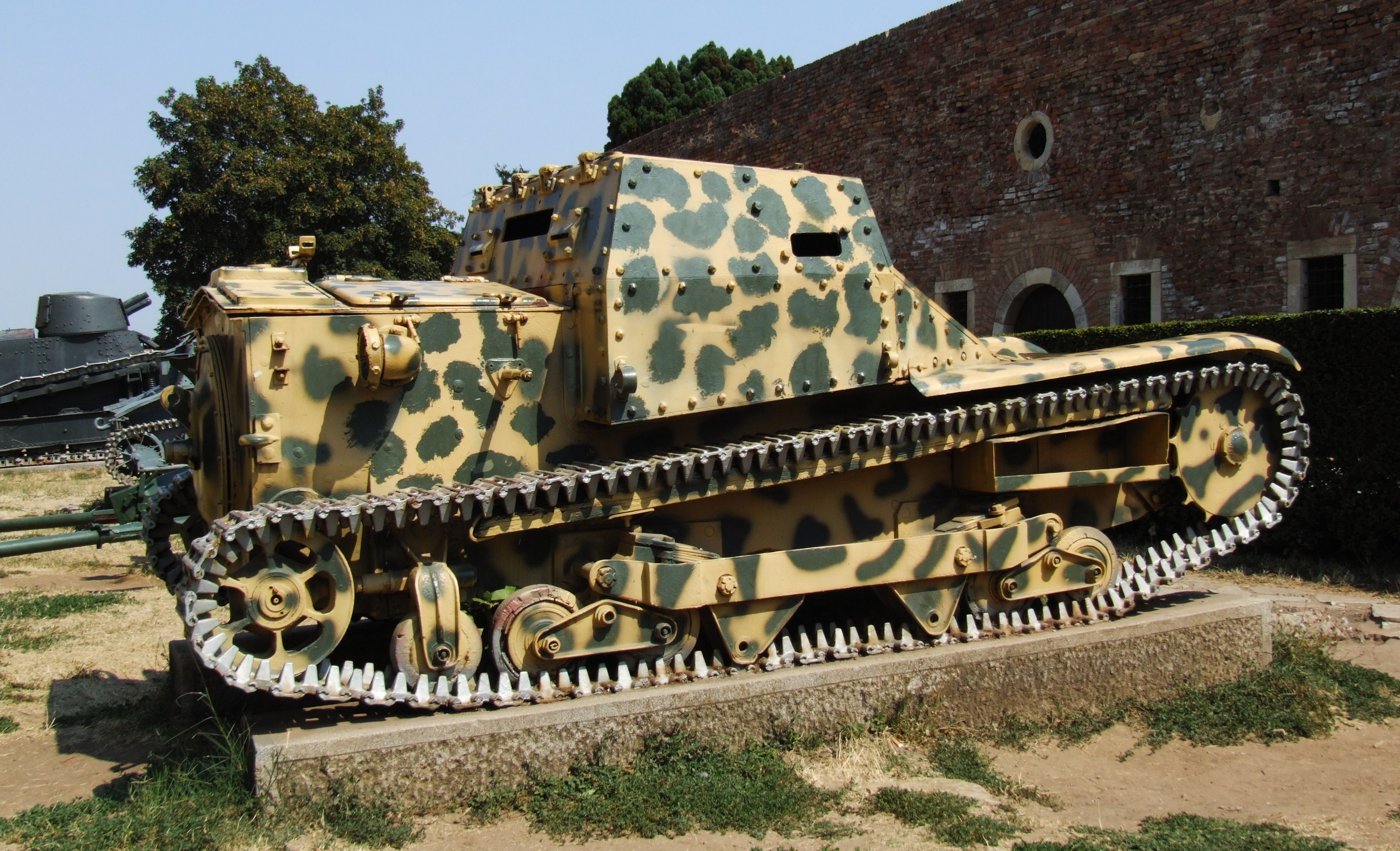 Belgrade Military Museum - Carro Veloce L3/35